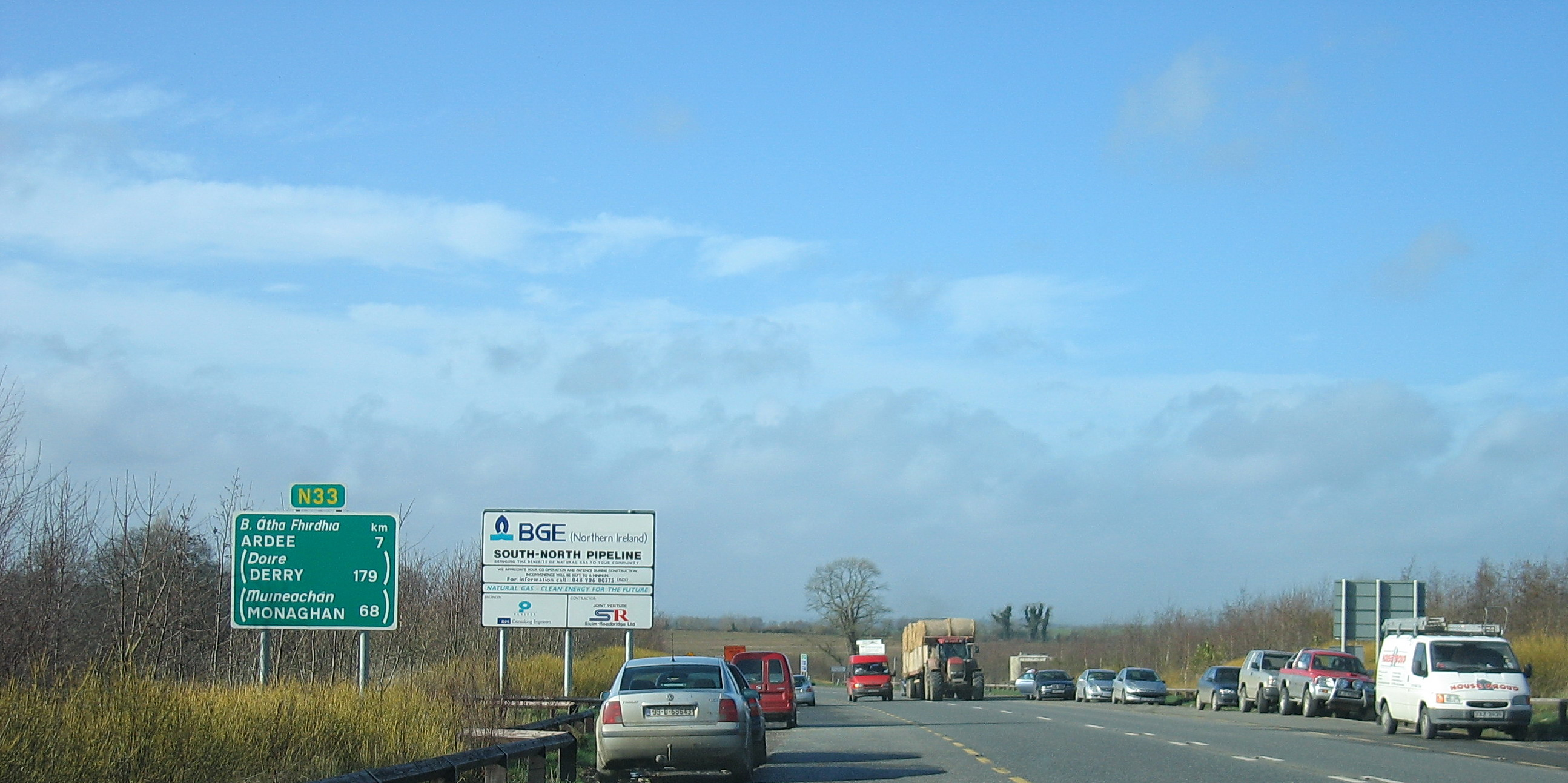 The N33 at its junction with the M1 - the parked cars are an unofficial 'park and ride'; cars are pooled for the journey down the M1